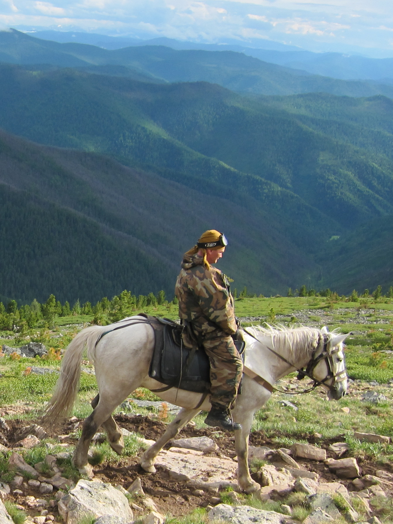 Horse riding in Chemalsky District of the Altai Republic